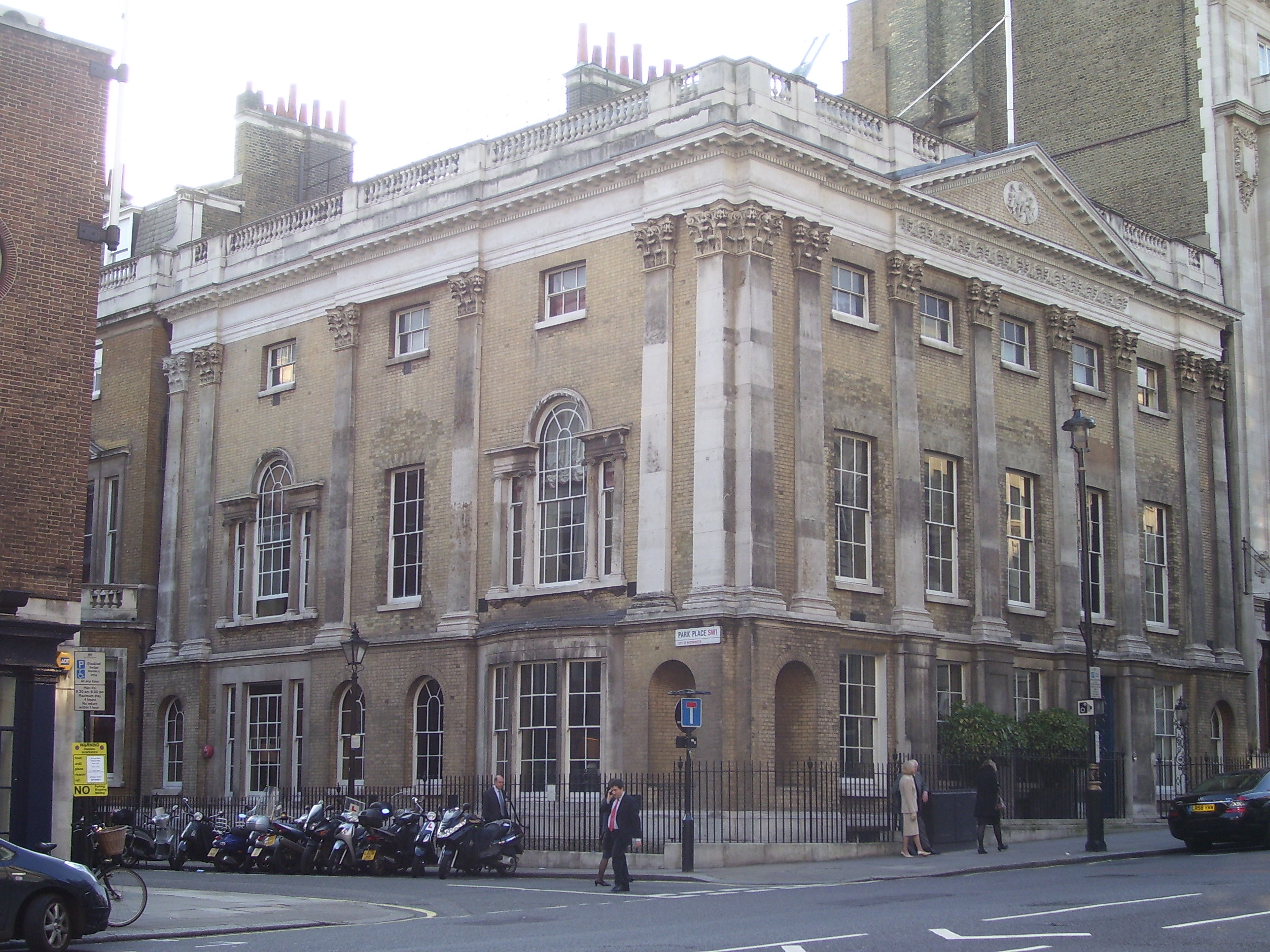 Brooks's club, London